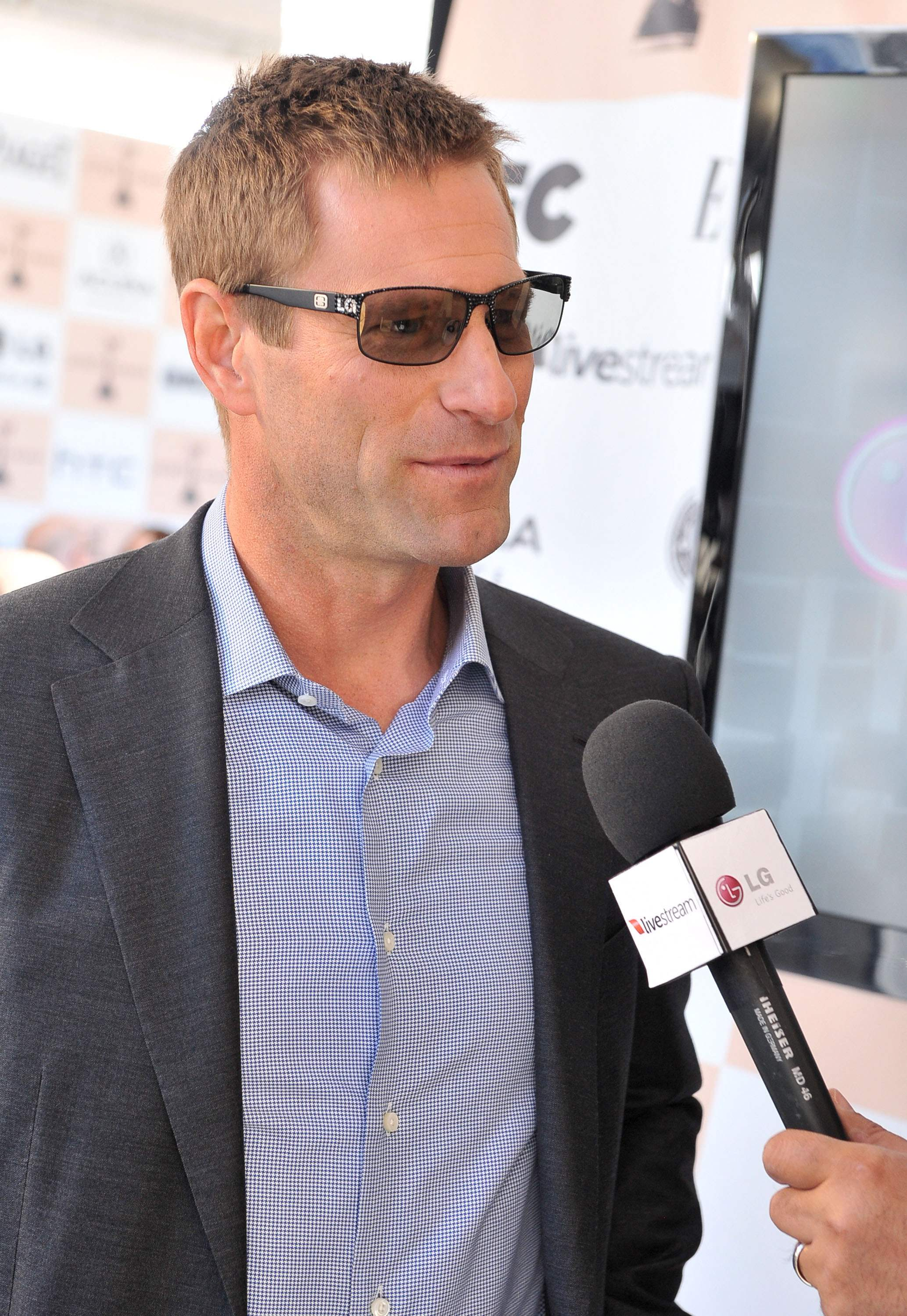 Aaron Eckhart at 2011 Independent Spirit Awards.